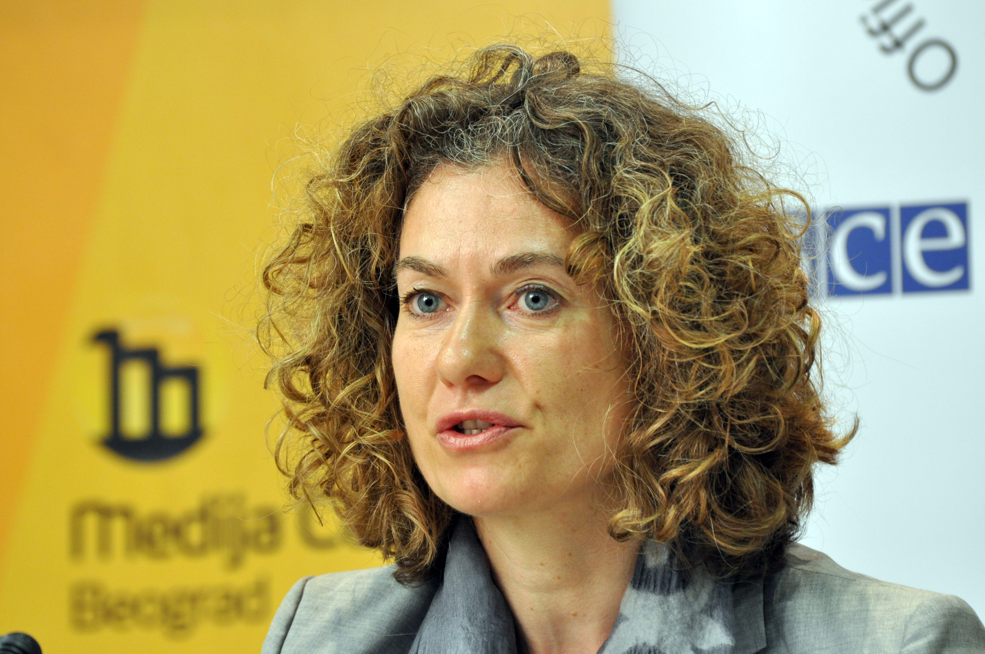 Corien Jonker